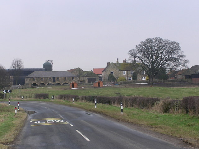 Ulnaby Hall. Ulnaby Hall Farm, Site of Medieval Village The Hall is of 16th century date, there are remains of fish-ponds to the North and small quarries in the area. As well as a medieval village.